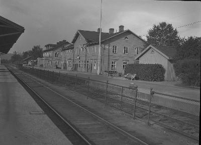 Description ÅNGE JÄRNVÄGSSTATIONEN OCH TRAFIKRESTAURANGEN 1930 TALET